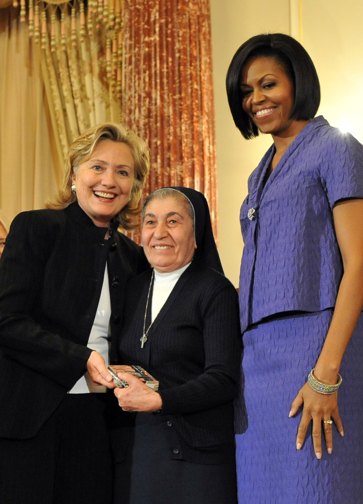 2010 International Women of Courage Awards - individual awardees with Secretary of State Hillary Clinton and First Lady Michelle Obama